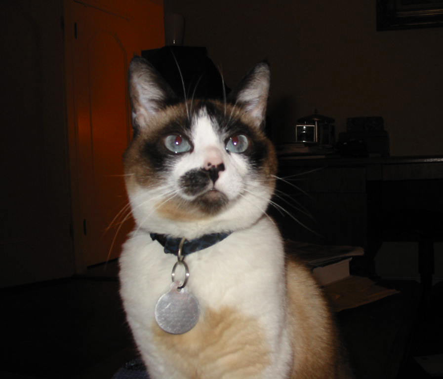 Front view of Snowshoe Cat's face, somewhere between wedged like the Siamese cat and rounded like the American Shorthair.